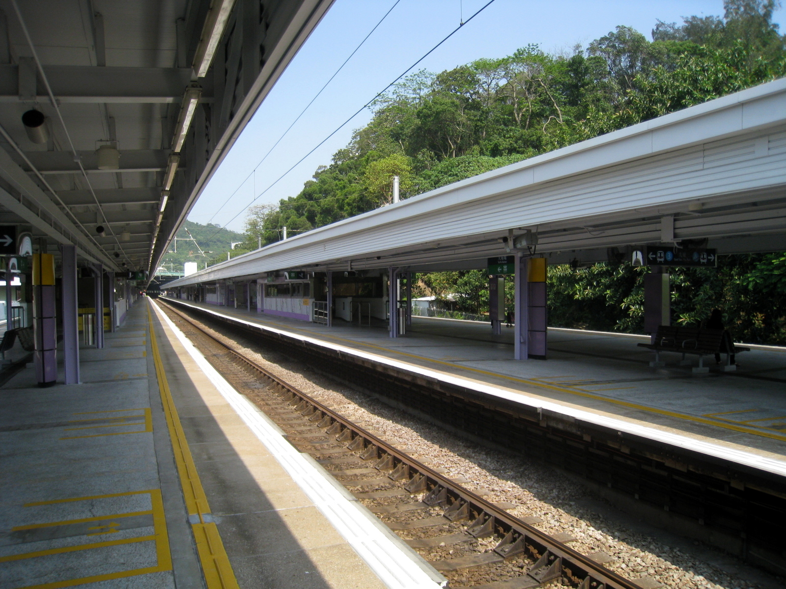 Tai Po Market Station Platform 大埔墟站